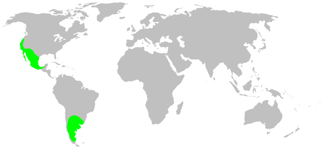 Mecicobothriidae habitat distribution, drawn after Platnick: World Spider Catalog 7.0